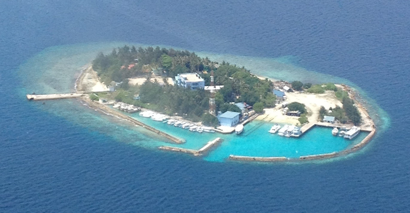 Dhoonidhoo, and Male, Maldives